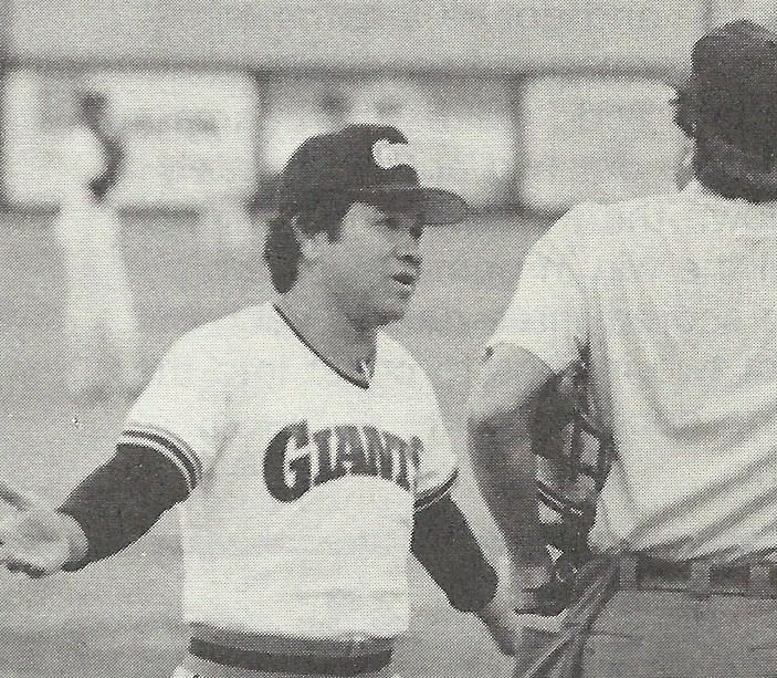 Wendell Kim pleads his case with an umpire during a Fresno Giants game in 1985.